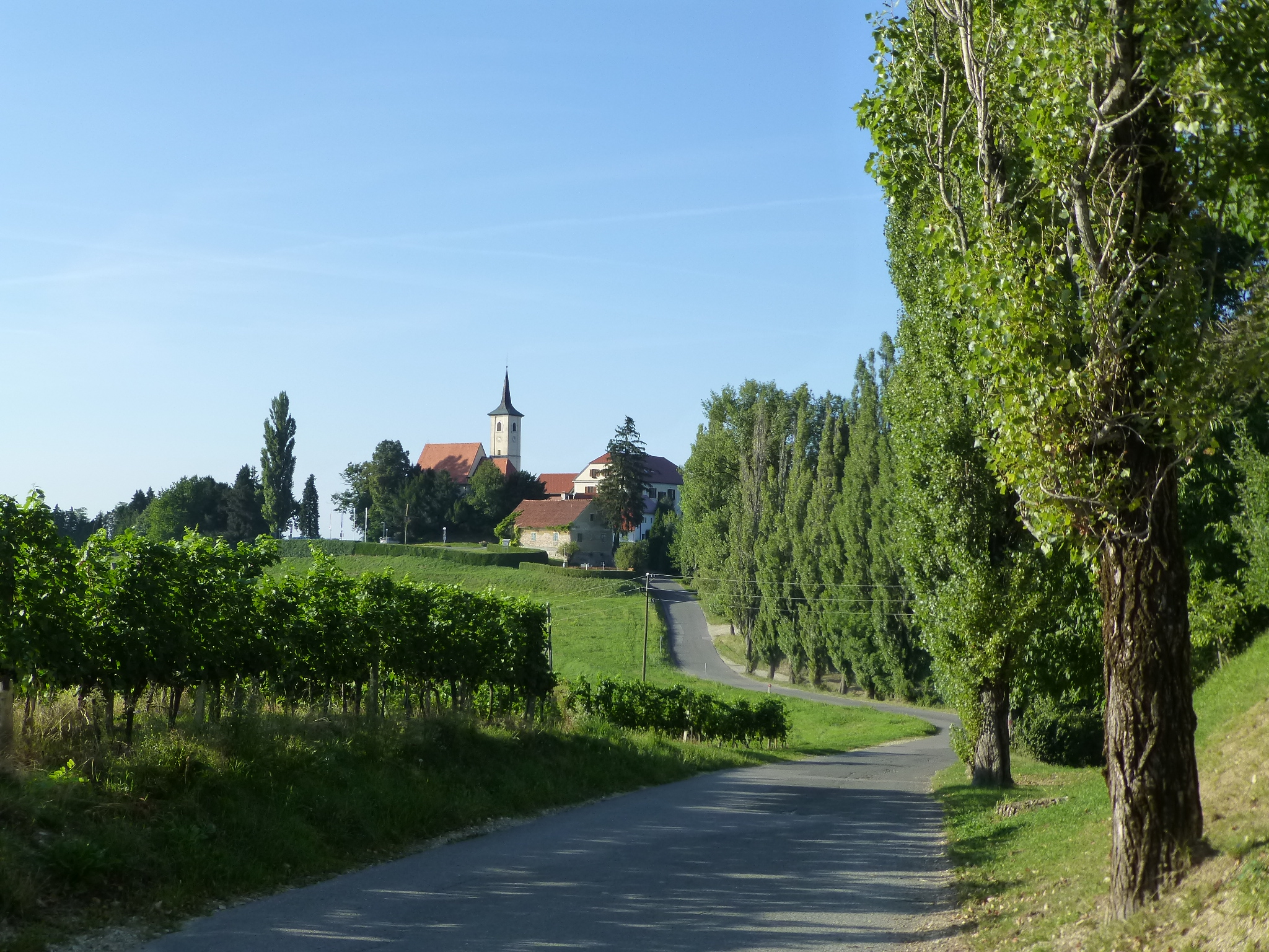 Jeruzalem (north of Ljutomer), Slovenia. Church and vineyards.